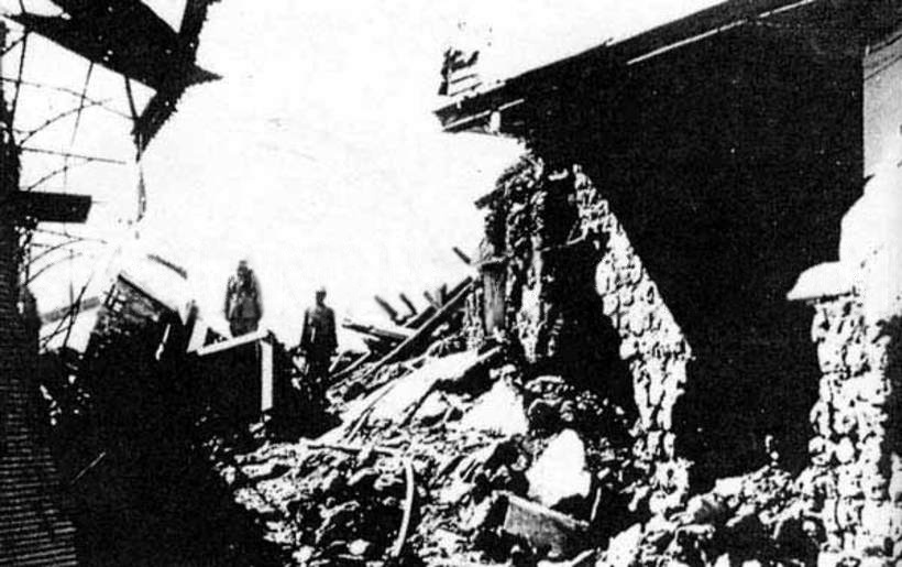 The home of the nationalist leader Nasib al-Bakri destroyed by the French in 1925